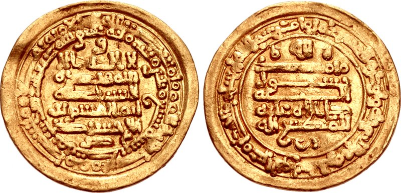 Original caption: ISLAMIC, Egypt & Syria (Pre-Fatimid). Ikhshidids. Abu'l-Qasim Unujur. AH 334-349 / AD 946-960. AV Dinar (22mm, 3.51 g, 2h). Filastin (al-Ramla) mint. Dated AH 337 (AD 949/50). Kalima and name of Abu'l-Qasim Unujur across field; Arabic letter “w” above, Arabic letter “t” below; al-Quran Sura 30:3-4 in outer margin; mint and date formula in inner margin / Continuation of Kalima, “salla Allah ‘alayhi”, and name of Abbasid Caliph across field; above, “l’llah”flanked by Arabic letter “h”, horizontal “S” below; Umayyad “Second Symbol” in outer margin. Bacharach 72; Balog, Tables 337, Palestine, Var. B; SICA 6, 159-60 (Dies B/b); Lavoix –; Album 676. Good VF.